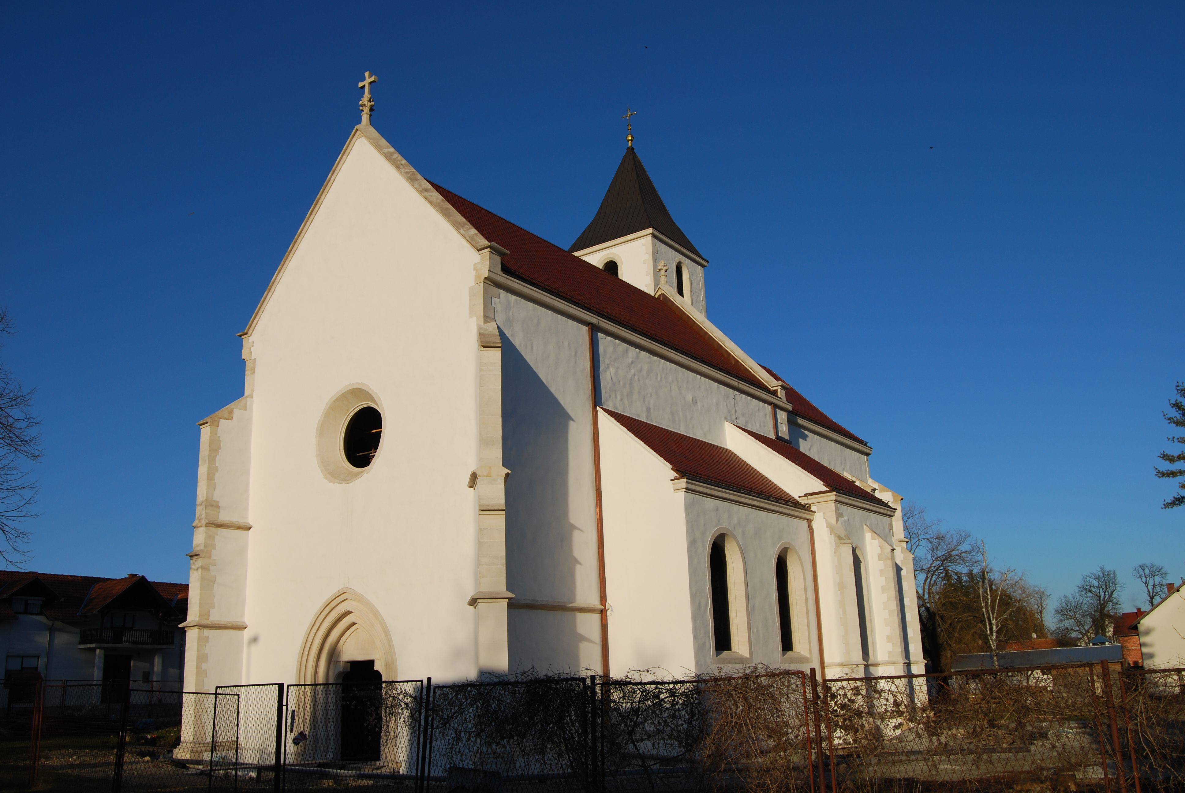 Church in village Voćin, Croatia